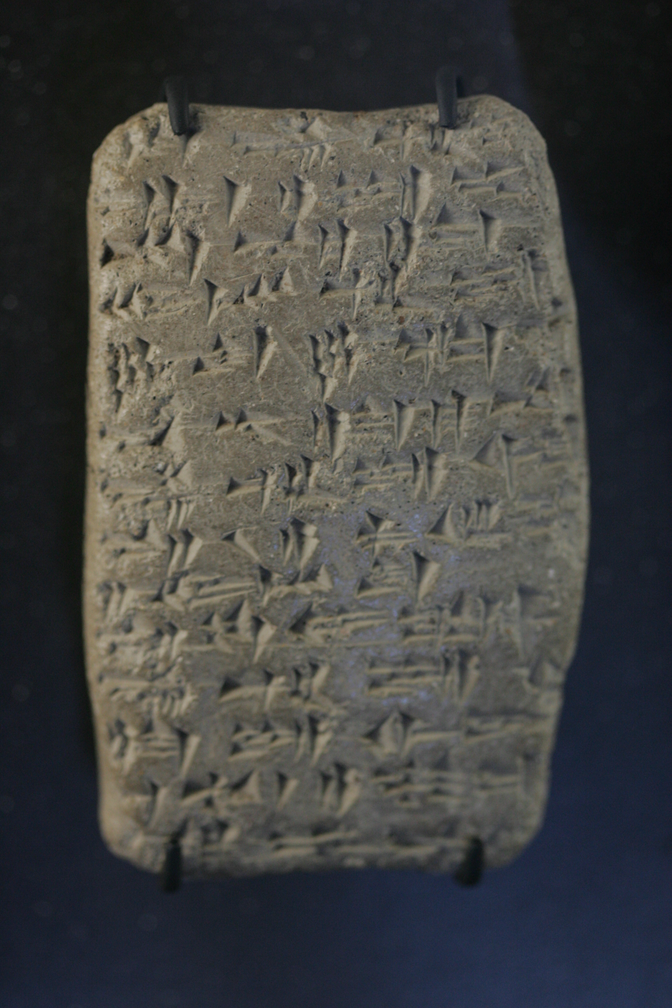 ArtistUnknownDescription Ayyab Letters-EA364 (Front) showing: "7 and 7 times" formula(line 5) Terra Cotta Line 1--a-na, LUGAL-EN-ia Line 2--um-ma, A-iYA-aB-(Ayyab) Line 3--ARAD-ka, (Servant-yours), a-na-ku, ARAD-(I, (I am)- Servant, (doubling, for forcefulness), (then-(l.4), "at feet")) Line 4--GÌR-MEŠ , (Foot-(s)-Plural (feet)), EN-ia Line 5--7-šu-7, (7 and 7...times...) Line 7--LUGAL, (king) Line 11--LUGAL, (king) Line 12--a-na ia--ši, ("to me"=(iaši(Akkadian)), (ia--ši)) (from l.13,hand Tahmassi)) Line 13--qa-ti, (Hand...(of) A-tah-ma-ia (Tahmassi)) Current location Louvre Museum (Inventory)Native nameMusée du LouvreLocationParisCoordinates48° 51′ 37″ N, 2° 20′ 15″ E Established1793Web page control : Q19675 VIAF: 257711507 ISNI: 0000 0001 2260 177X ULAN: 500125189 LCCN: n80020283 NLA: 35912436 WorldCat Sully, Rez-de-chaussée, Levant, Salle D, Vitrine 4 : L'âge du bronze récent 1550 - 1150 avant J.-C.Accession numberAO 7094 . Also known as EA 364Credit lineAcquired in 1918Referenceslouvre.frSource/PhotographerRama Ayyab Letters-EA364 (Front) showing: "7 and 7 times" formula(line 5) Terra Cotta Line 1--a-na, LUGAL-EN-ia Line 2--um-ma, A-iYA-aB-(Ayyab) Line 3--ARAD-ka, (Servant-yours), a-na-ku, ARAD-(I, (I am)- Servant, (doubling, for forcefulness), (then-(l.4), "at feet")) Line 4--GÌR-MEŠ , (Foot-(s)-Plural (feet)), EN-ia Line 5--7-šu-7, (7 and 7...times...) Line 7--LUGAL, (king) Line 11--LUGAL, (king) Line 12--a-na ia--ši, ("to me"=(iaši(Akkadian)), (ia--ši)) (from l.13,hand Tahmassi)) Line 13--qa-ti, (Hand...(of) A-tah-ma-ia (Tahmassi))